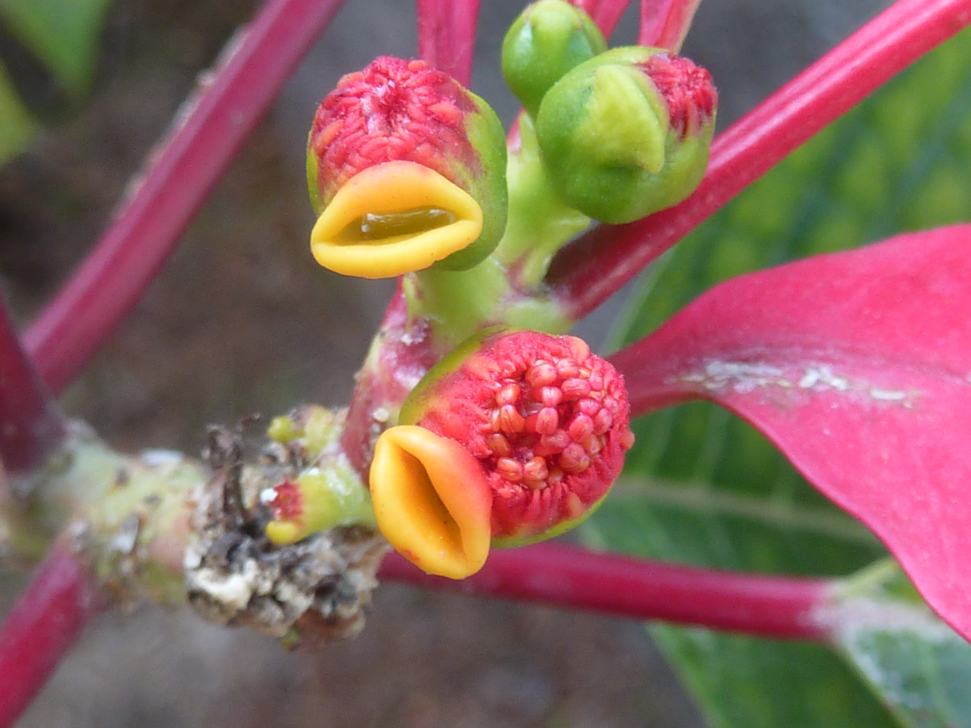 Flowers and flower buds of Euphorbia pulcherrima at Antananarivo - Madagascar